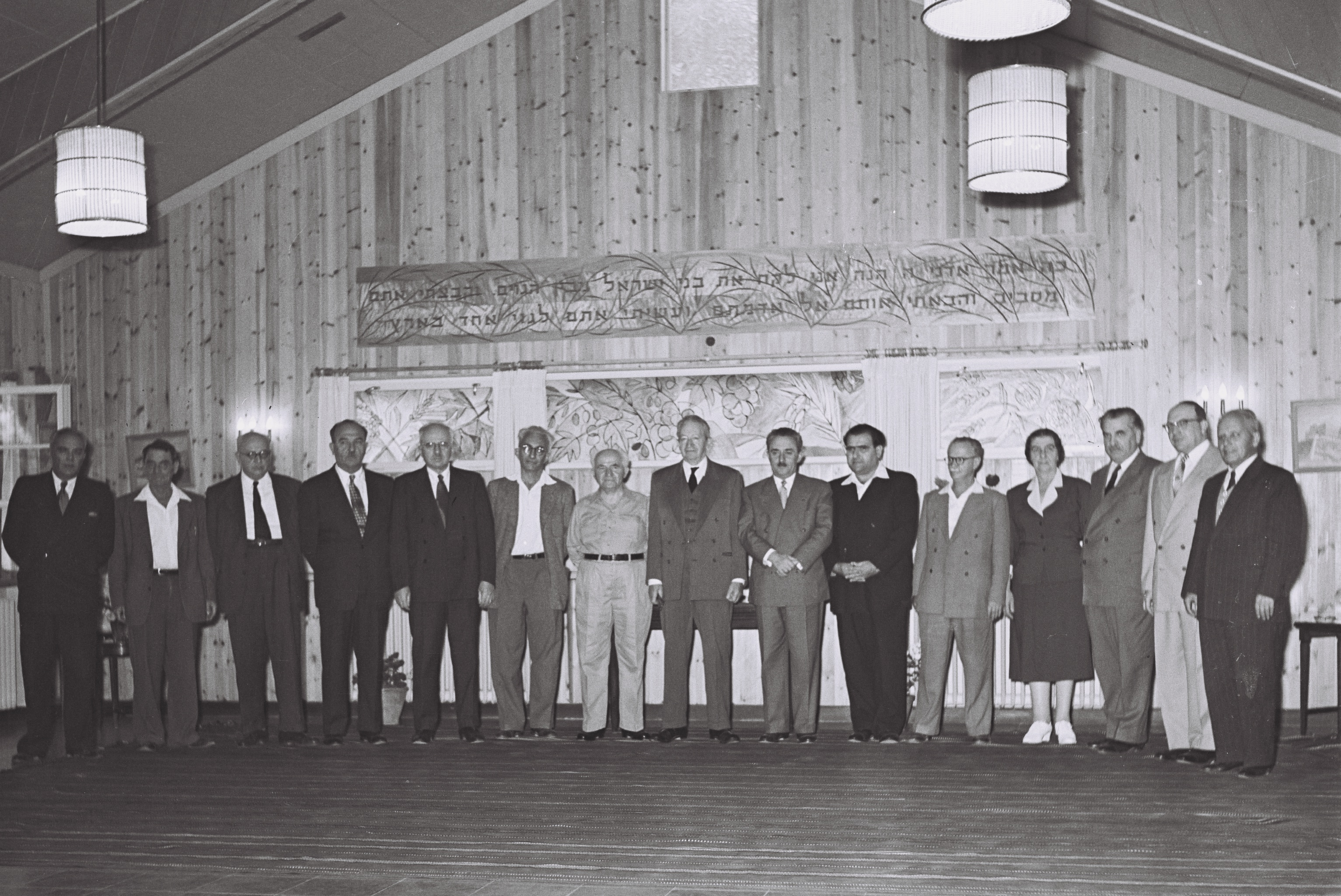 The new cabinet after presentation to the Pres. L.To R. Arane, Naphtali, Eshkol , Rosen, Bentov, Ben Gurion, Pres. Sharett, Barzilai, Yehuda, Meir, Shapira and Burg.